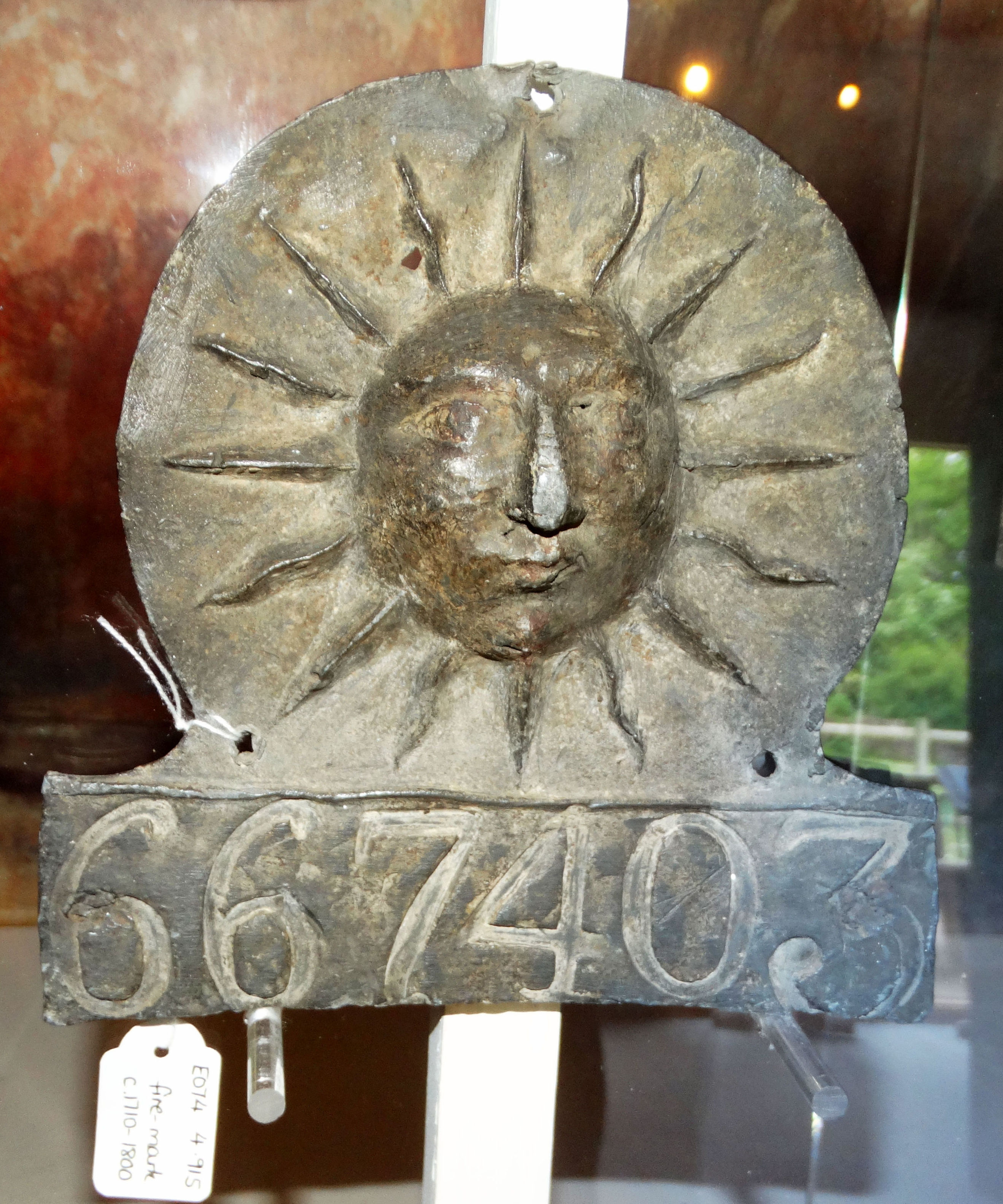 Sun fire insurance mark at the Avoncroft Museum